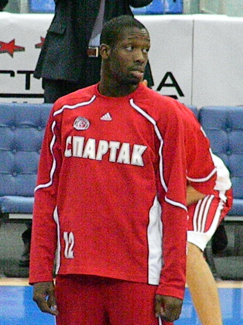 Patrick Beverley, american basketball player from Spartak Saint-Petersburg in the game against BC Nizhny Novgorod on March 19th, 2011